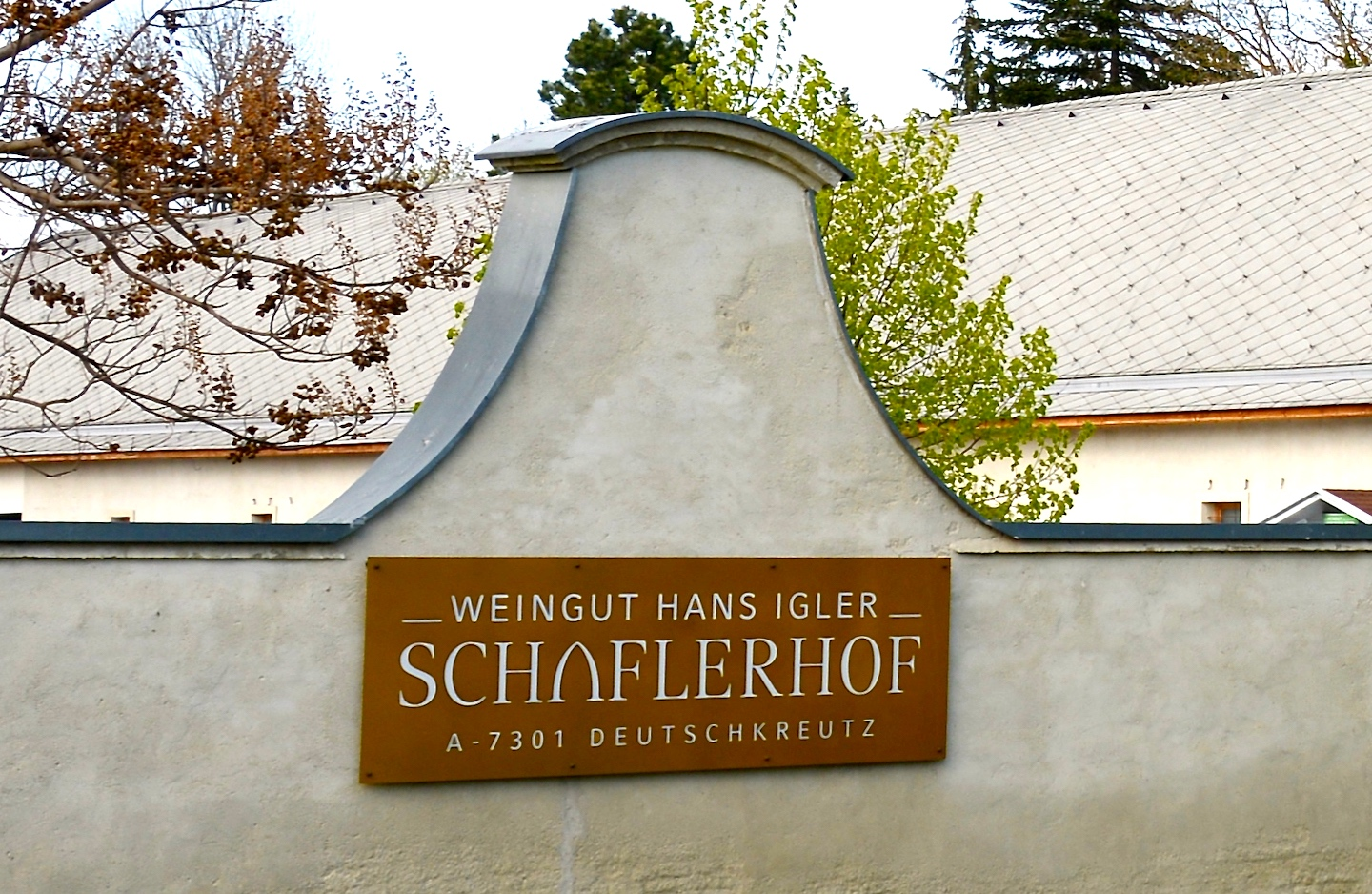 Hans Igler winery, Deutschkreutz